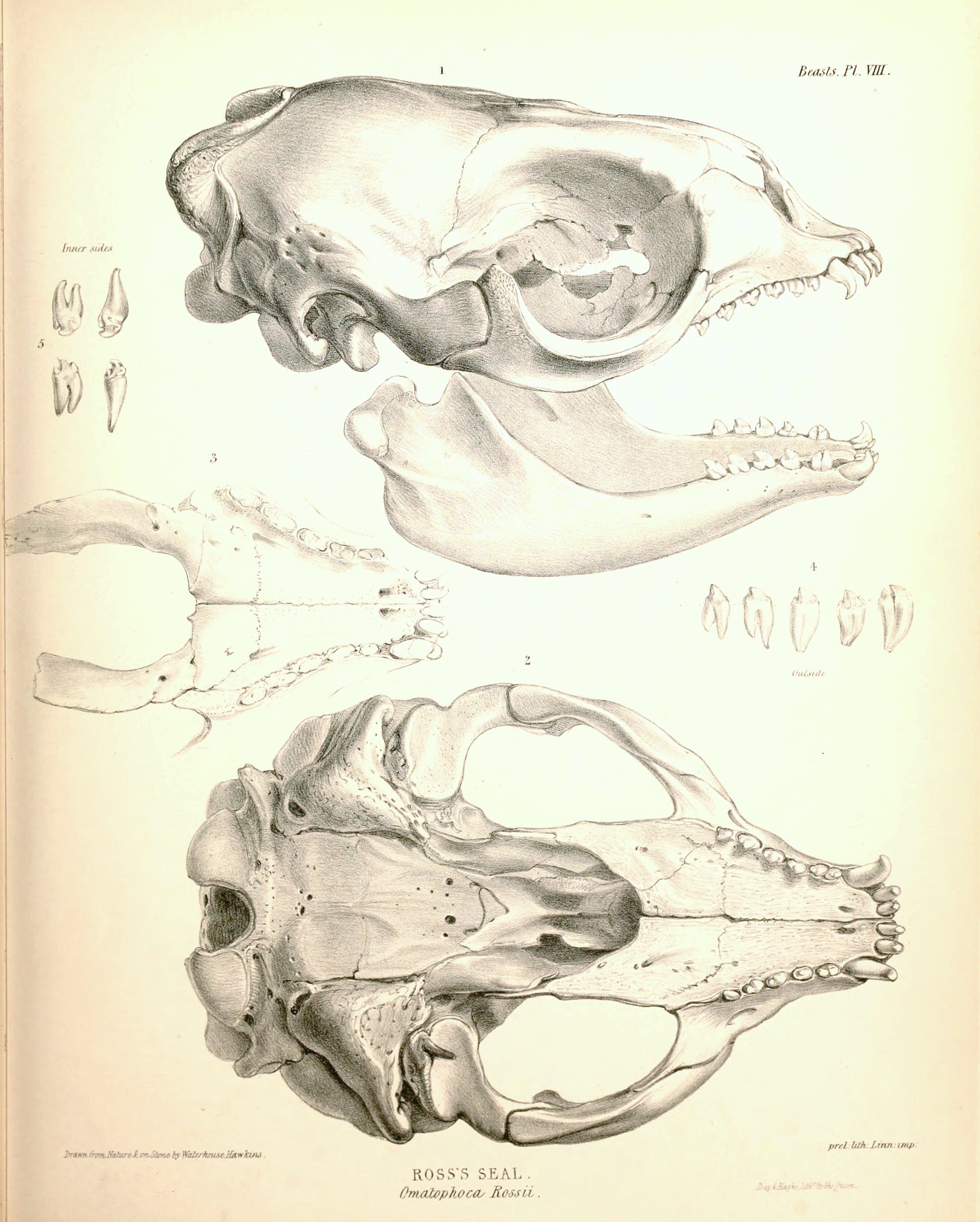 Ross Seal skull (Ommatophoca rossii)